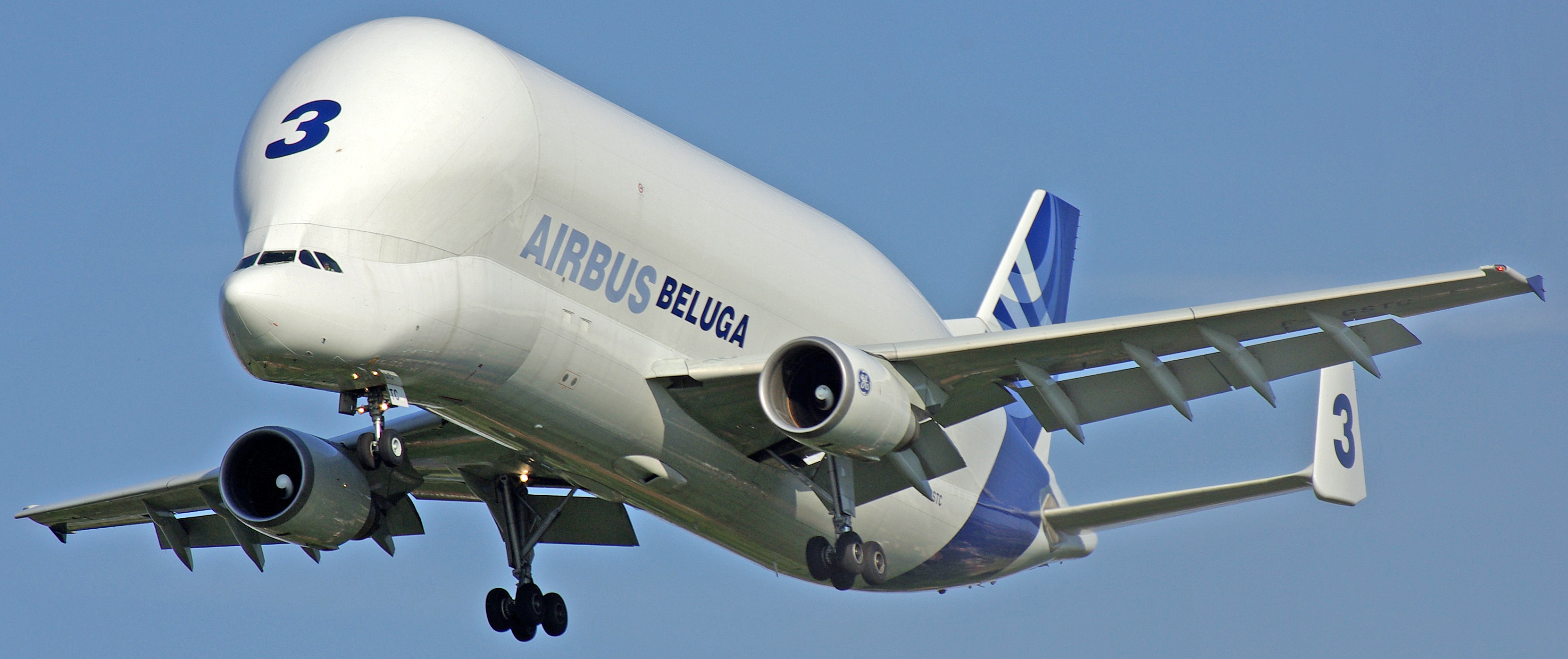 Beluga N°3 with the new Airbus colours landing at Toulouse